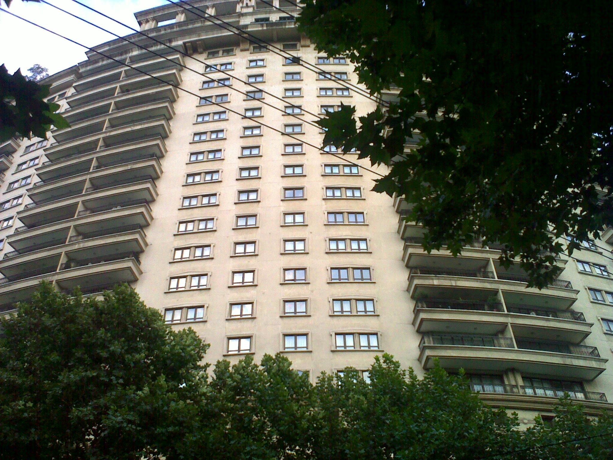 Hengshan Road No. 41